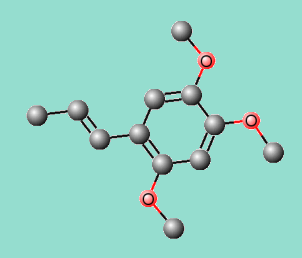 3D Chemical structure of the α-Asarona (Español), α-Asarone (English). Made with Corina Software